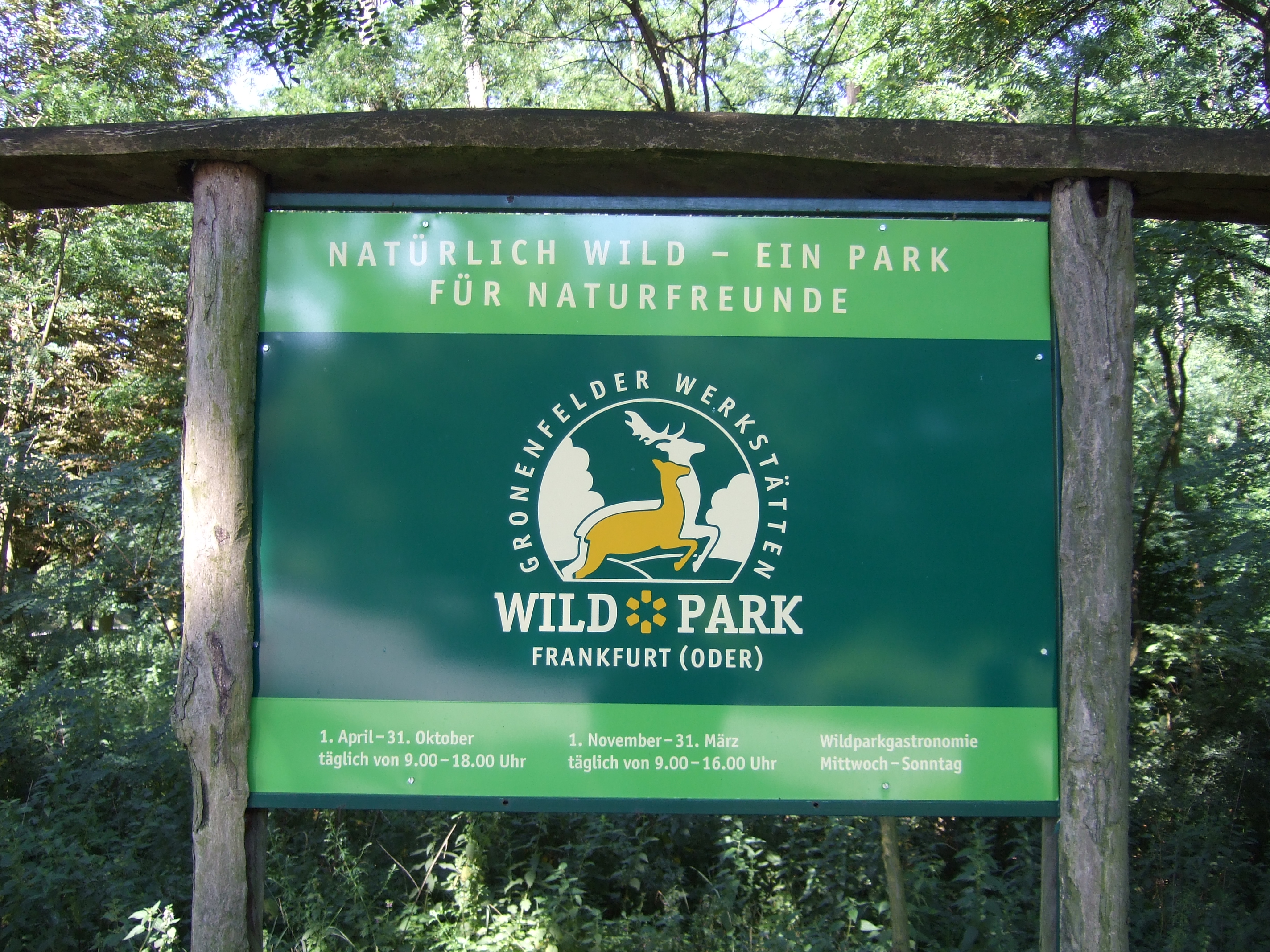 Zoo "Wildpark Frankfurt (Oder)" in Frankfurt (Oder), Germany. Plate with logo.